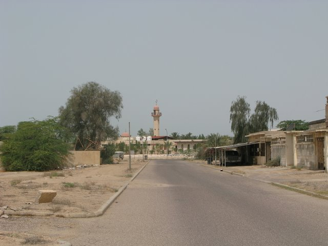 Picture Town in Failaka Island (Kuwait)